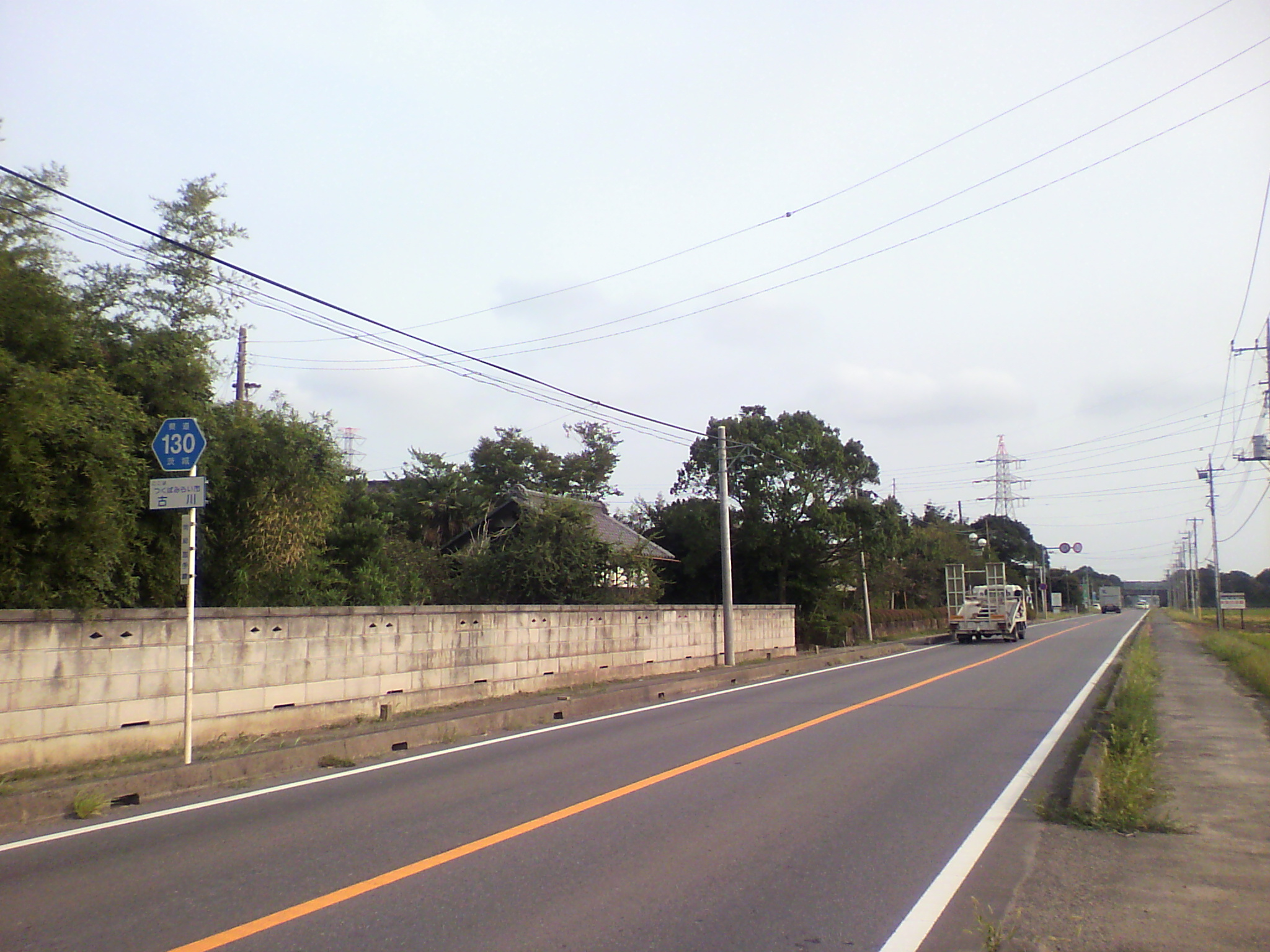 This is a landscape of Ibaraki prefectural road No. 130 Joso Toride Line.